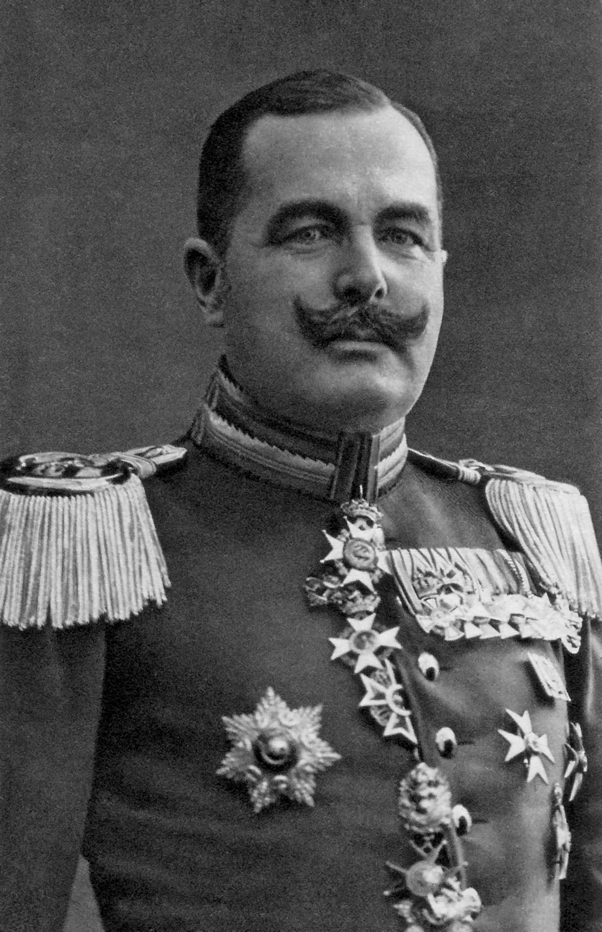 German General Adolf Wild von Hohenborn (WW1)